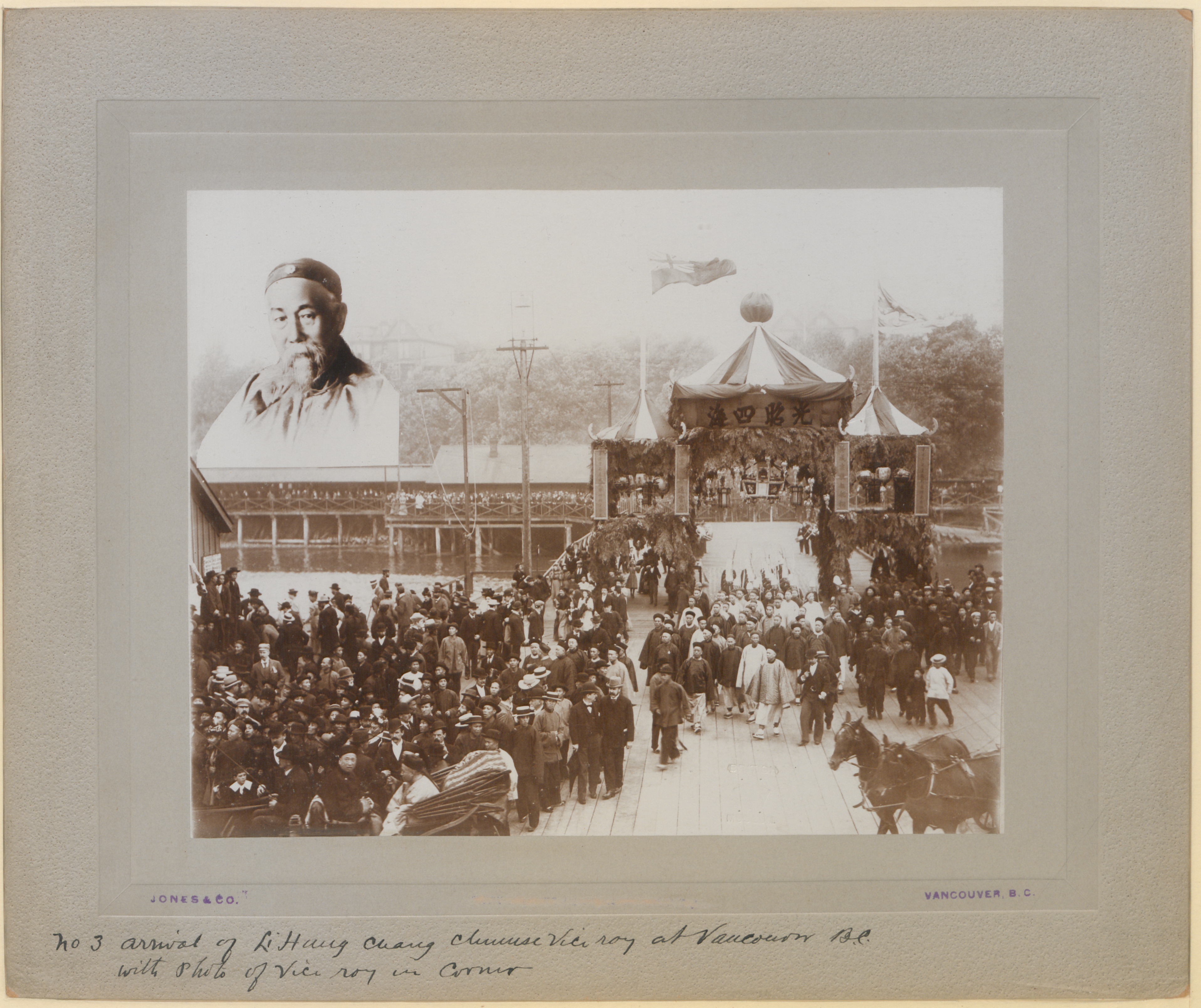 No. 3. Arrival of Li Hung Chang, Chinese Viceroy, at Vancouver B.C., with photo of Viceroy in corner. View of the arrival of Li Hung Chang, showing party processing from wharf through a triumphal arch erected at the quayside. A head-and-shoulders portrait of the Viceroy is printed in the top left corner of the photograph